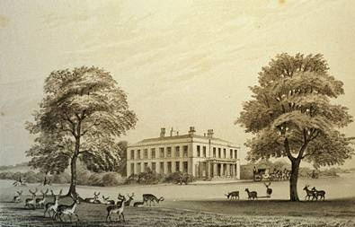 Portrait of Duxbury Hall, Chorley.